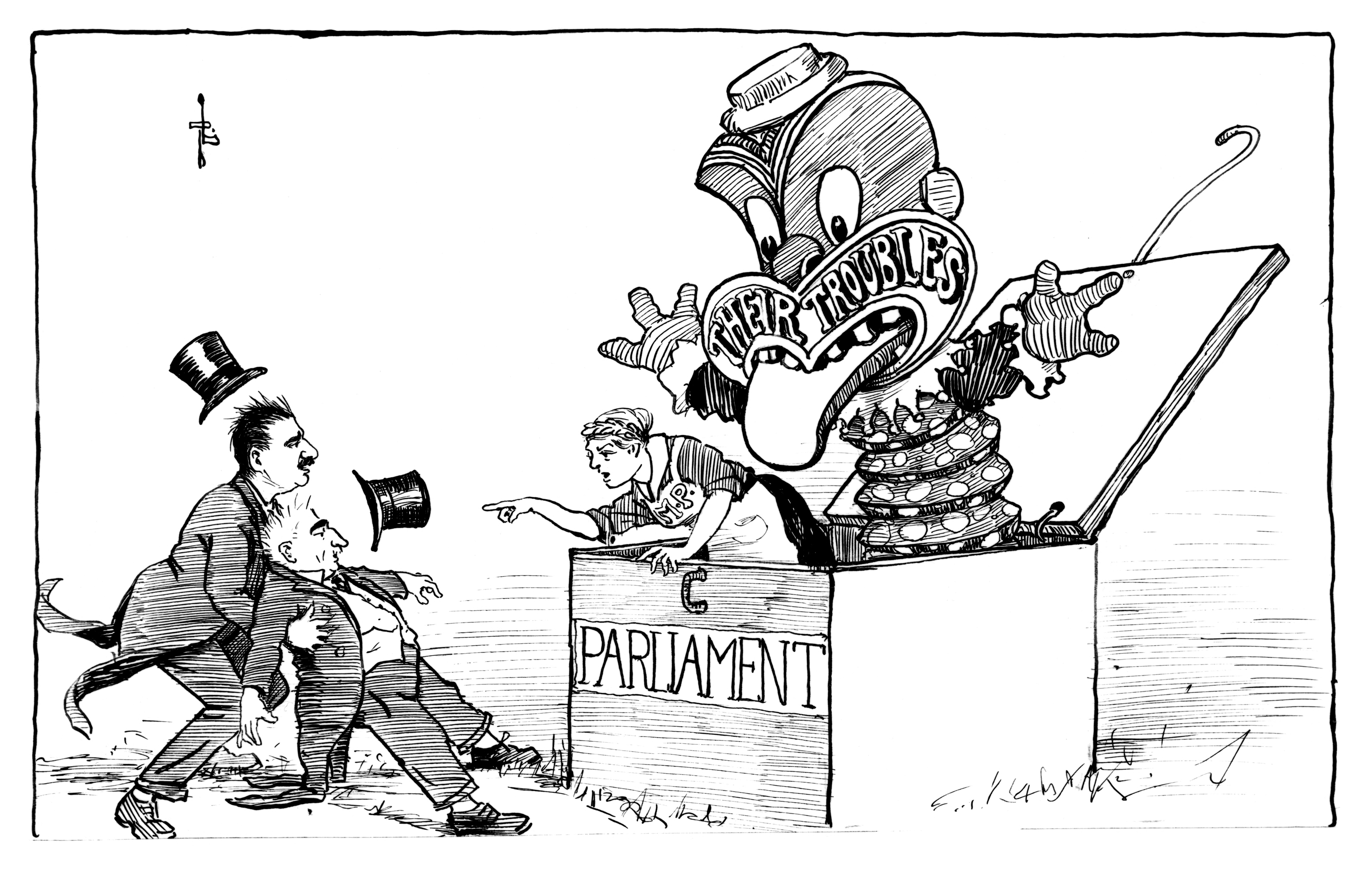 Shows coalition partners J G Coates and G W Forbes reacting with shock to the appearance of Mrs Elizabeth McCombs, 1st woman M P, who took office 13 Sep 1933. Behind Mrs McCombs is an indignant jack-in the box figure, representing the Maori race, some of whom had objected to women in Parliament. The Maori figure is marked 'their troubles' and has appeared at the same time as Mrs McCombs, out of the box, but is much larger and more threatening than Mrs McCombs, and hence more of a problem to the Government.